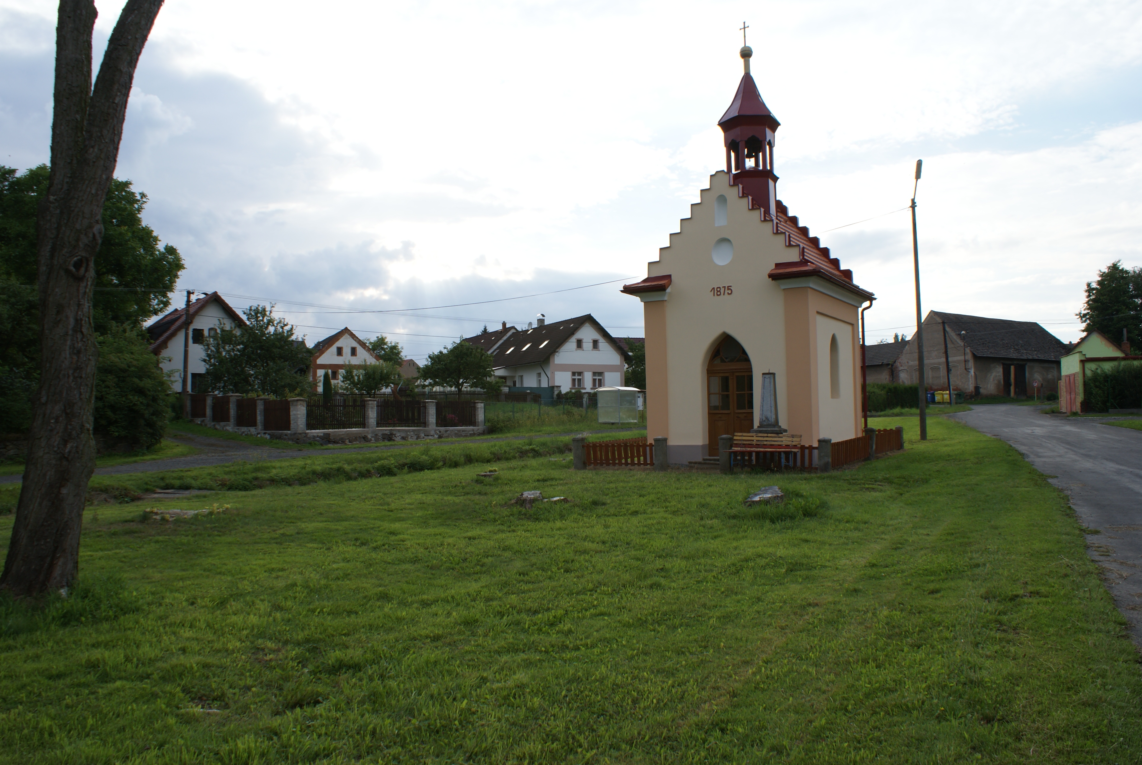 Bíluky, village in Klatovy district, Czech Republic. A chapel on the village common.